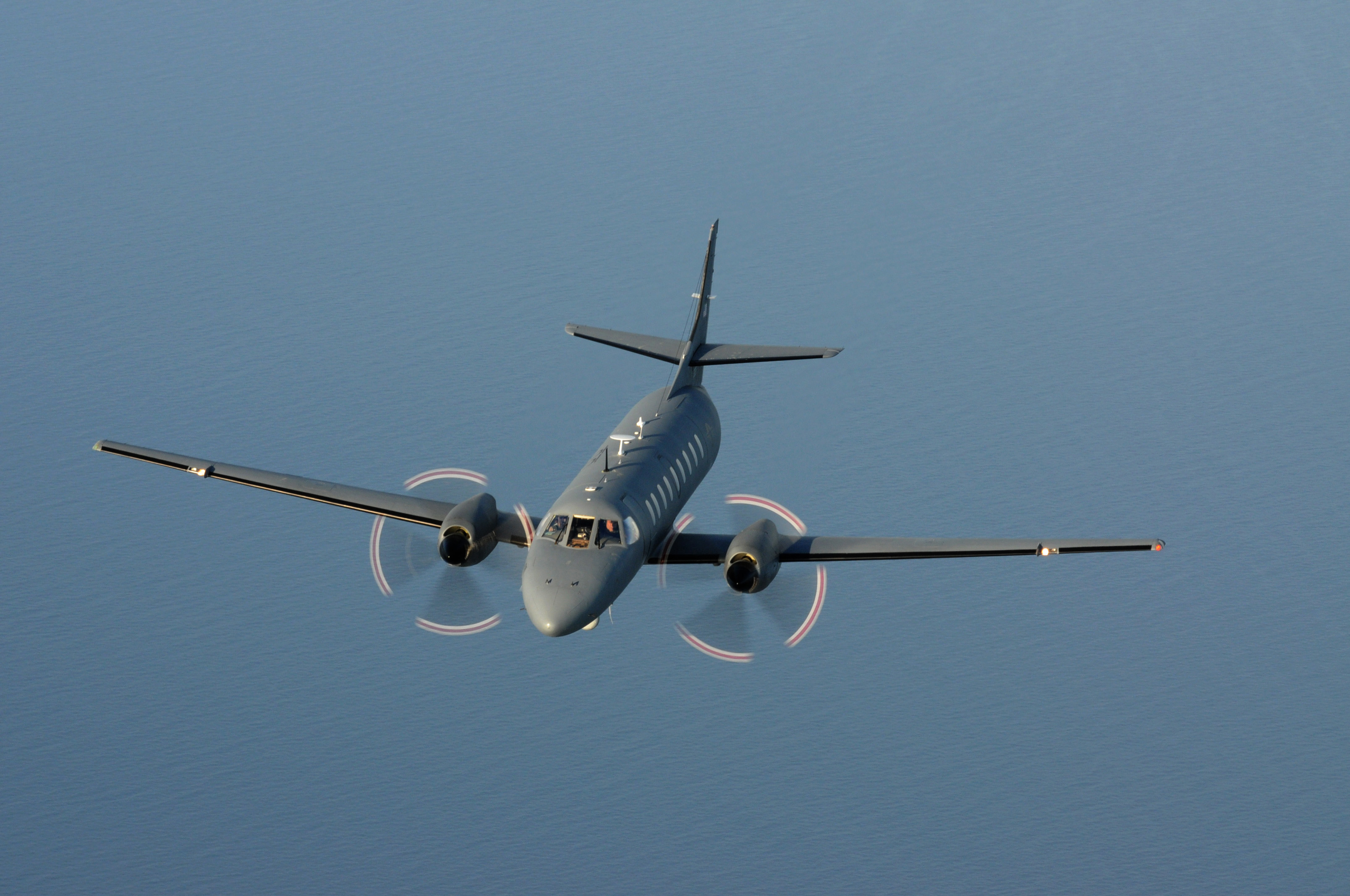 An RC-26B aircraft from the Florida Air National Guard, 125th Fighter Wing, based out of Jacksonville, Fla., flew a training mission off the coast of Jacksonville, Fla., Jan. 22. The RC-26B is equipped with imaging and communications equipment to assist law enforcement with reconnaissance and tracking of illegal drug traffickers and drug cultivation activity in addition to the ability to provide necessary support during natural disasters and national special security events. Unit: National Guard Bureau DVIDS Tags: Jacksonville; Florida National Guard; Florida; 125th Fighter Wing; Florida Air National Guard; National Guard Counterdrug; RC-26B